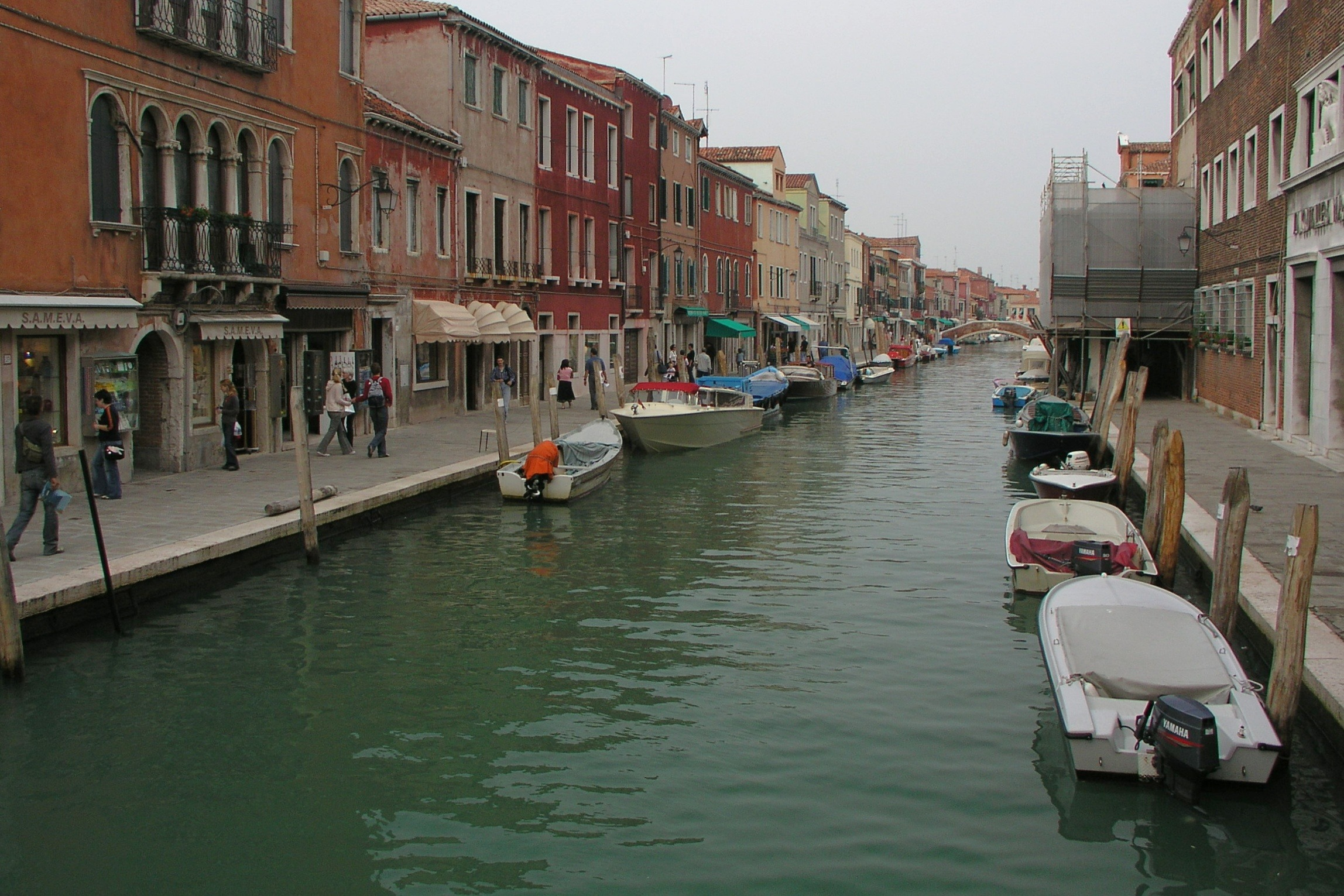 Rio del Vetrai canal, Venice - Murano island (Italy)